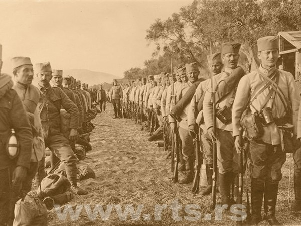 First World War, Serbian army after the recovery and reorganization (1916.) Српски (ћирилица): Српска војска после опоравка и реорганизације у Првом светском рату (1916)